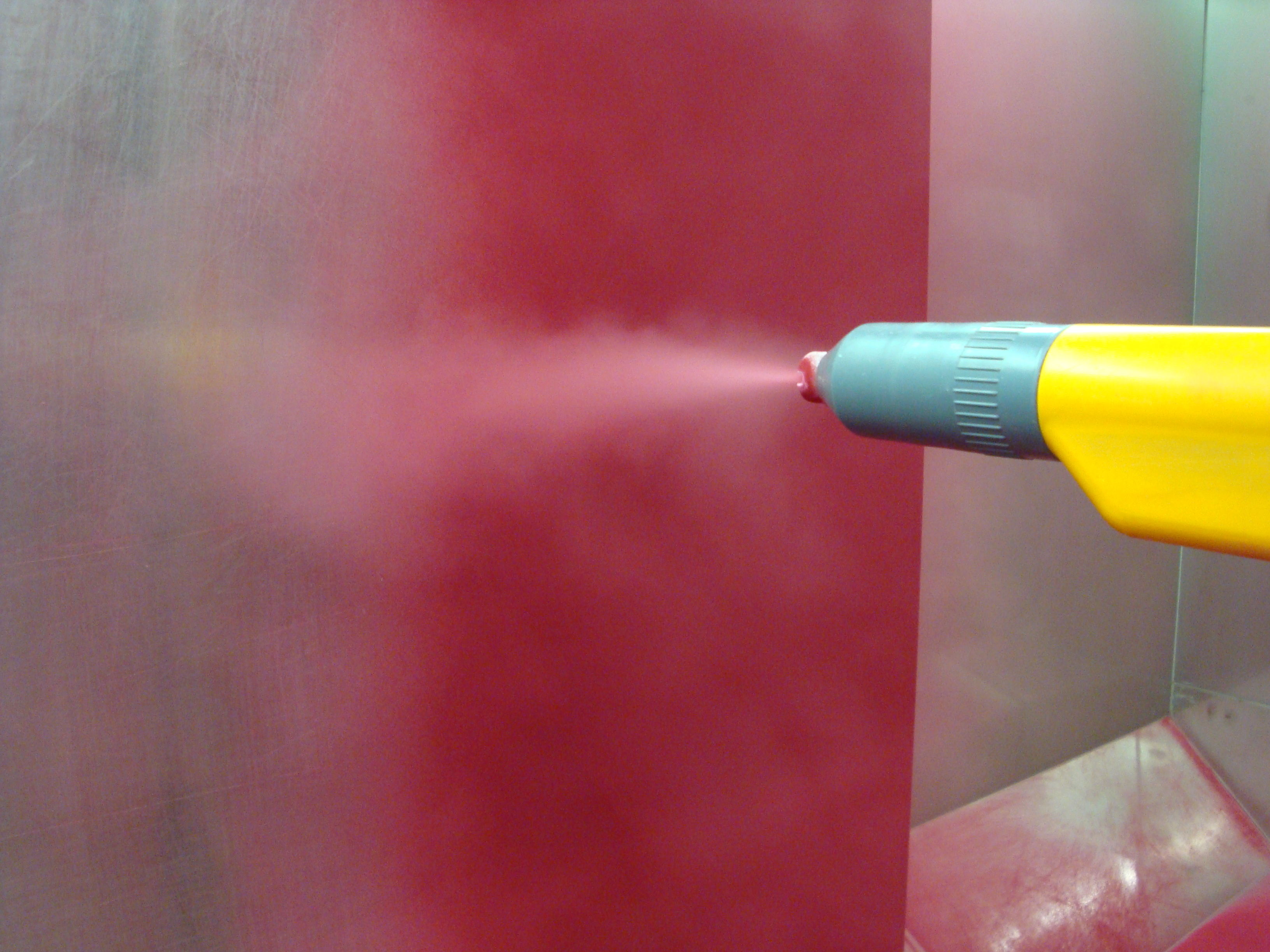 Application of powder coatings